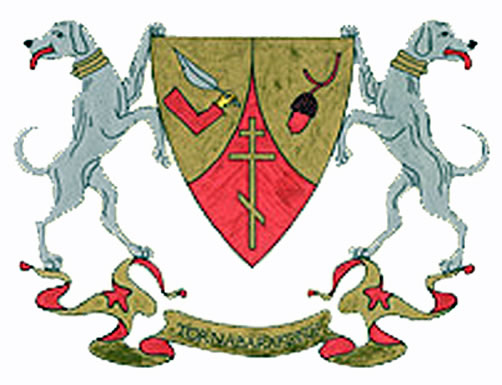 Coat of arms of Tornabarakony, Hungary